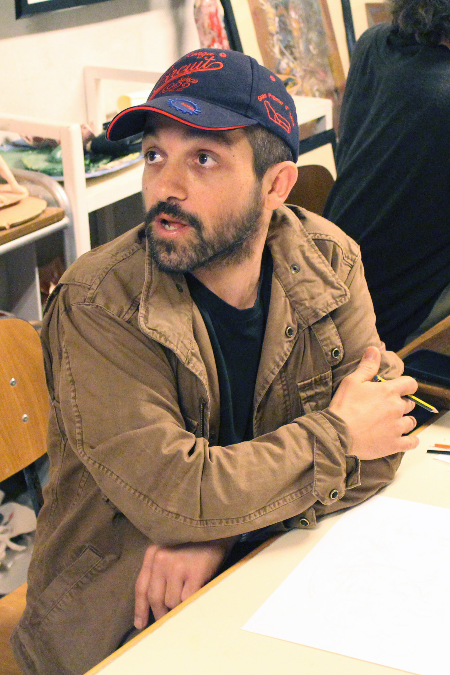 Albissola Comics 2013, May 4th-5th 2013, Albissola Marina, Savona, Italy